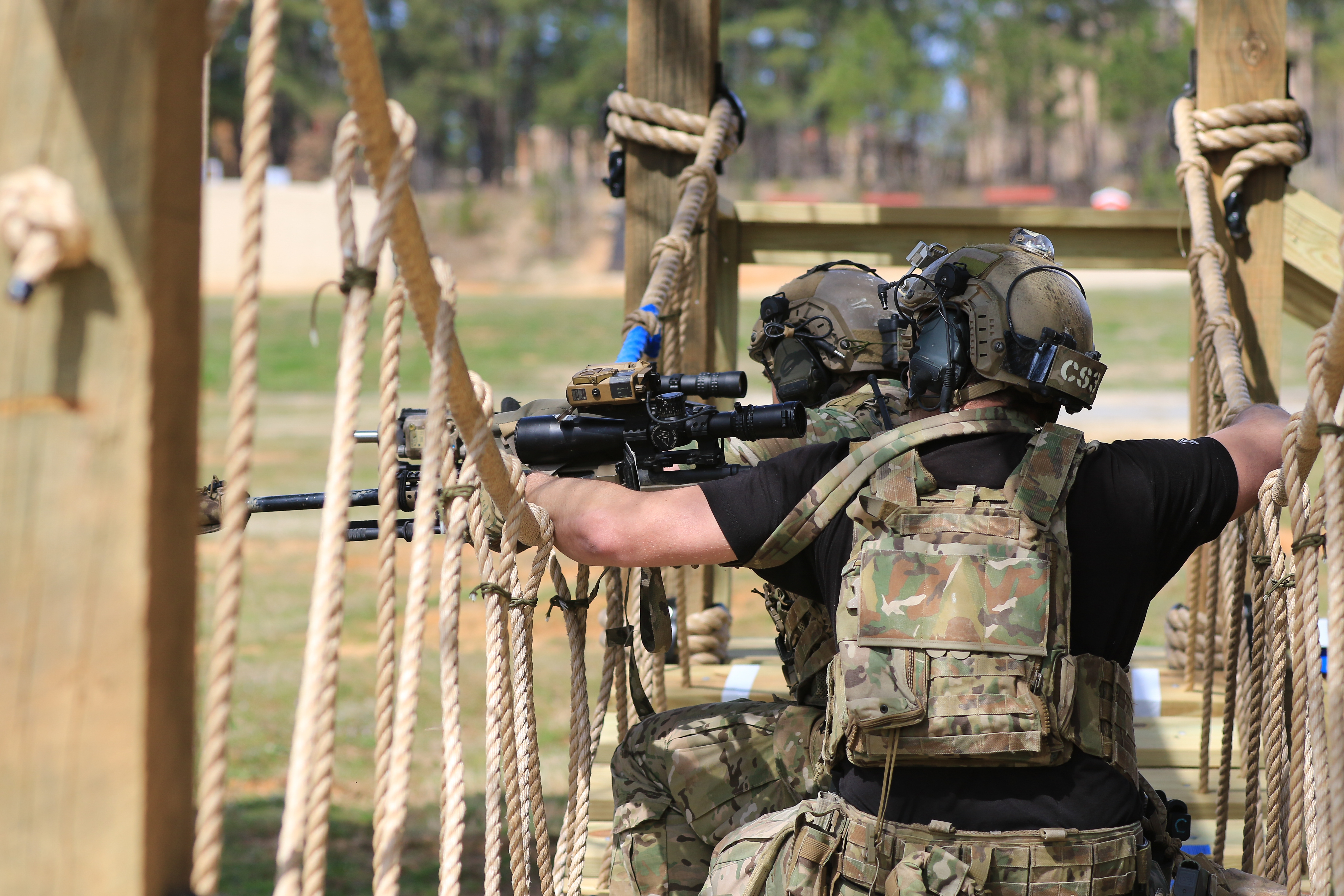 Competitors in the United States Army Special Operations Command International Sniper Competition engage targets on an obstacle course during a live-fire range event on Fort Bragg, North Carolina, March 19, 2019. Twenty-one teams competed in the USASOC International Sniper Competition where instructors from the United States Army John F. Kennedy Special Warfare Center and School designed a series of events that challenged the two-person teams’ ability to work together, firing range, speed and accuracy in varied types of environments. (U.S. Army photo by Sgt. Michelle Blesam)